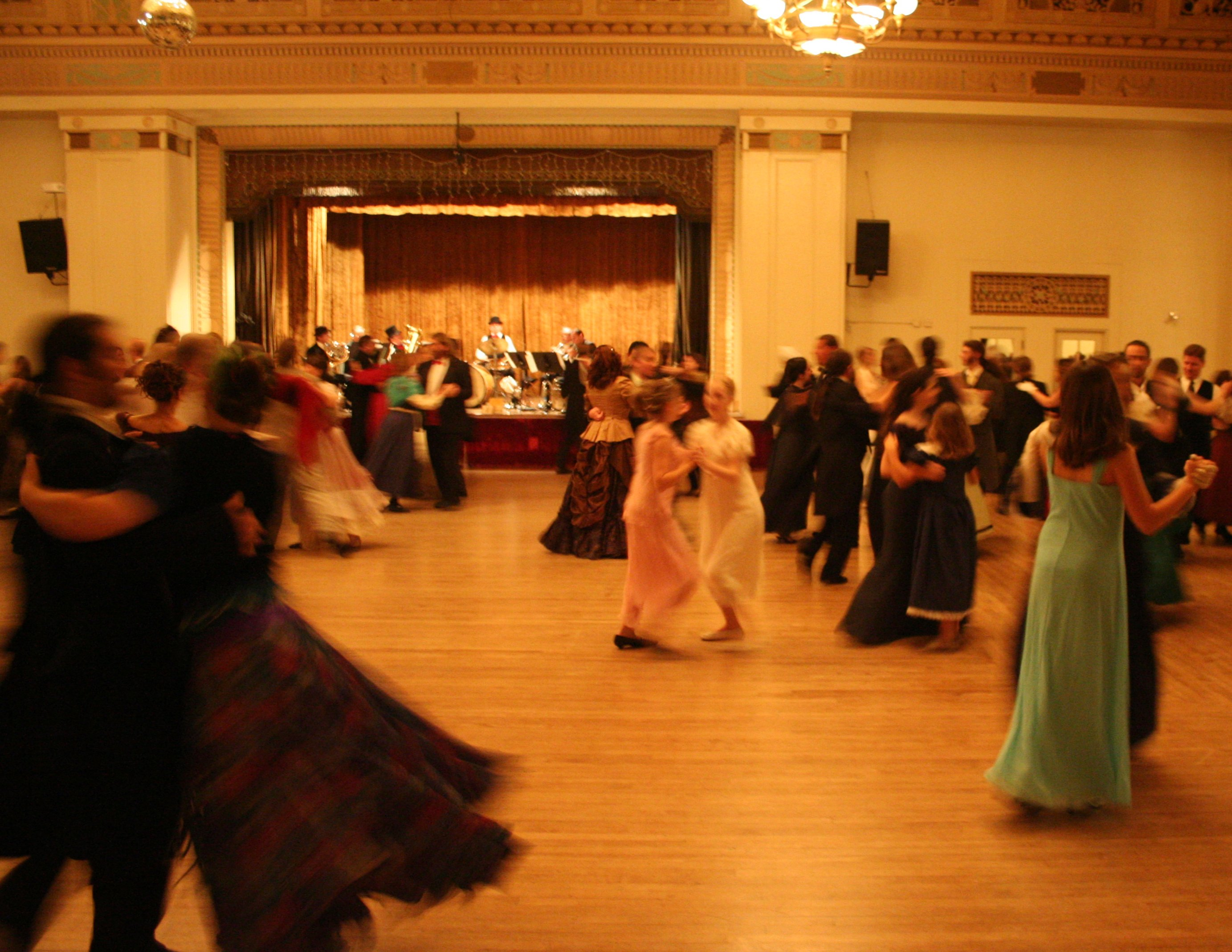 Photographed by and copyright of (c) David Corby (User:Miskatonic, uploader) 2006 Gaskell Ball in Oakland CA.